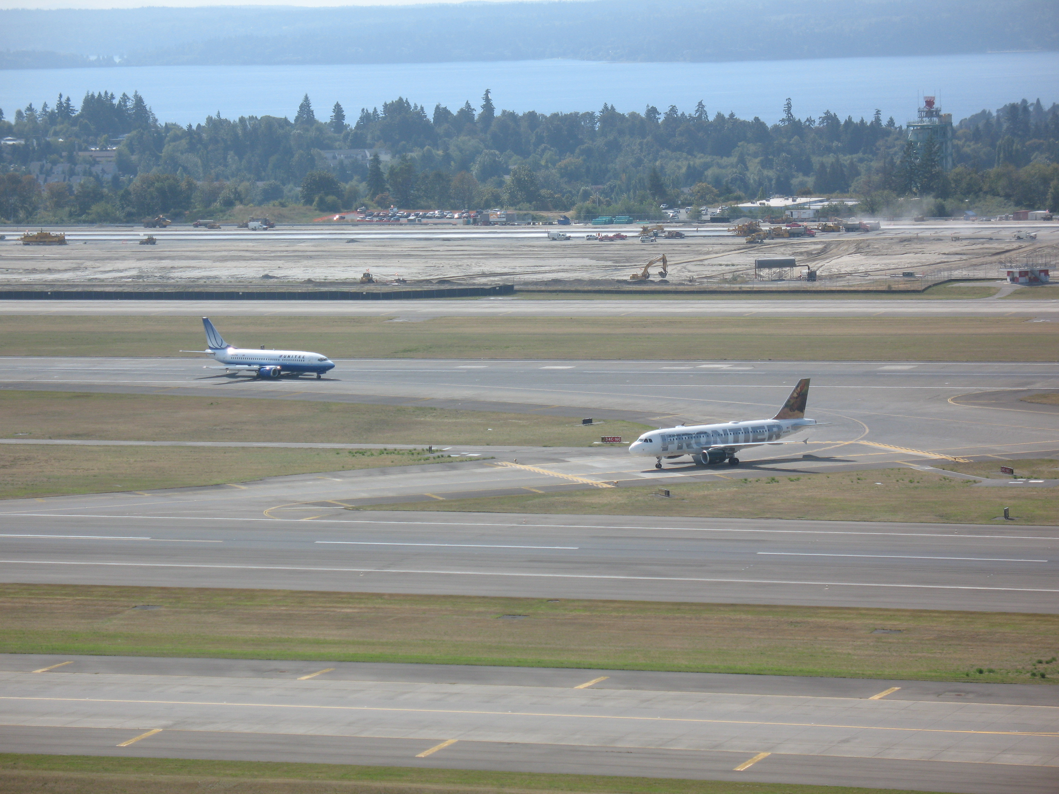 A view of two parallel runways from the control tower at Seattle-Tacoma International Airport (KSEA). Construction of the new runway is visible in the background.